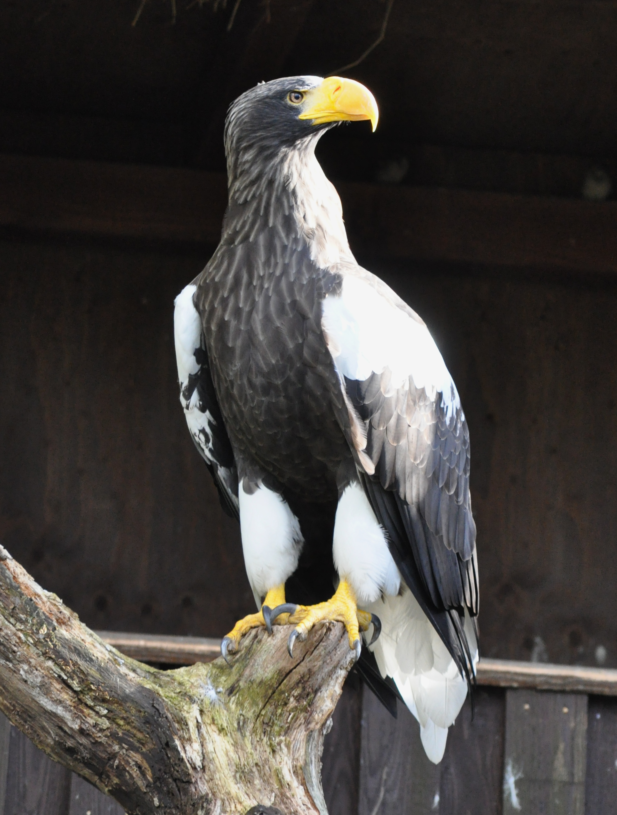 Steller's Sea-eagle (Haliaeetus pelagicus) in the Walsrode Bird Park, Germany.